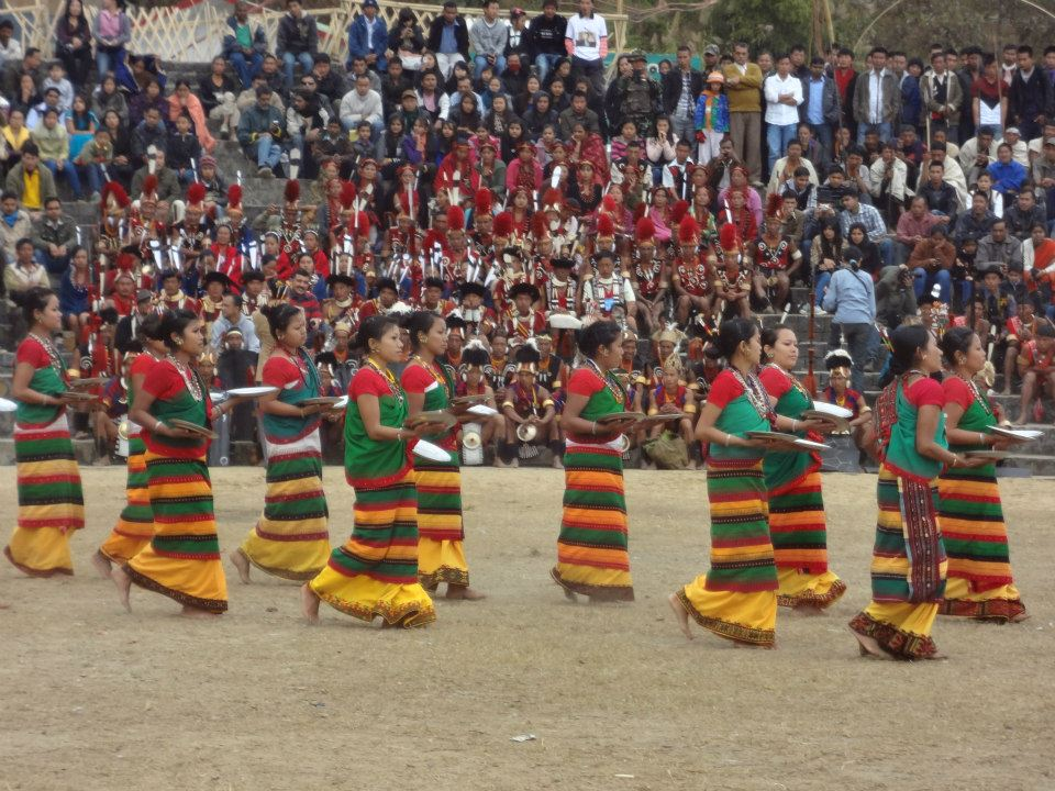 Hornbil Festival, Kohima